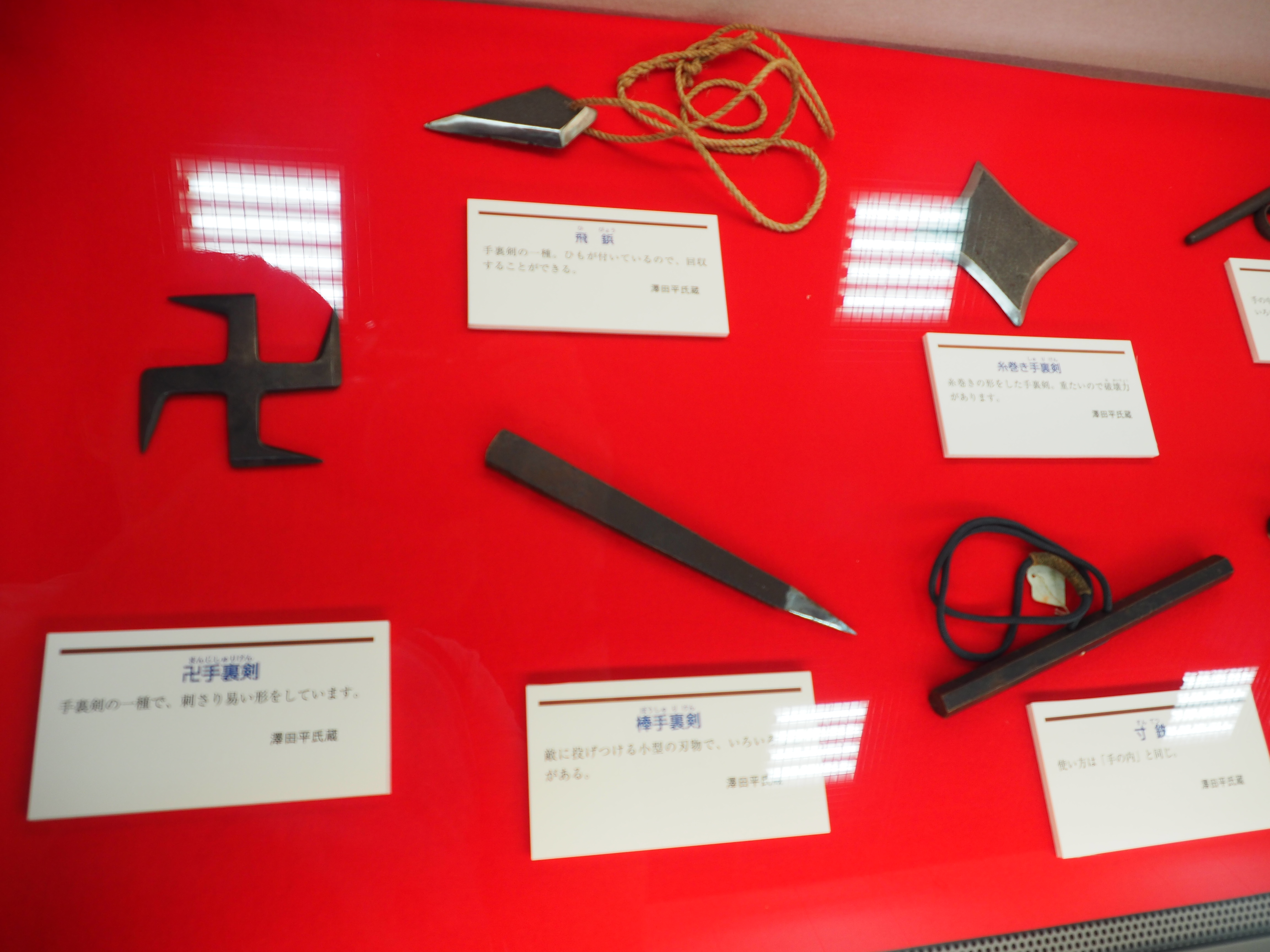 Shurikens at Kusuri gakushukan(medichine museum), Koka, Shiga, Japan